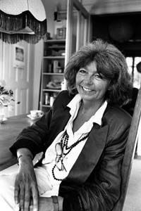 Leni Robert